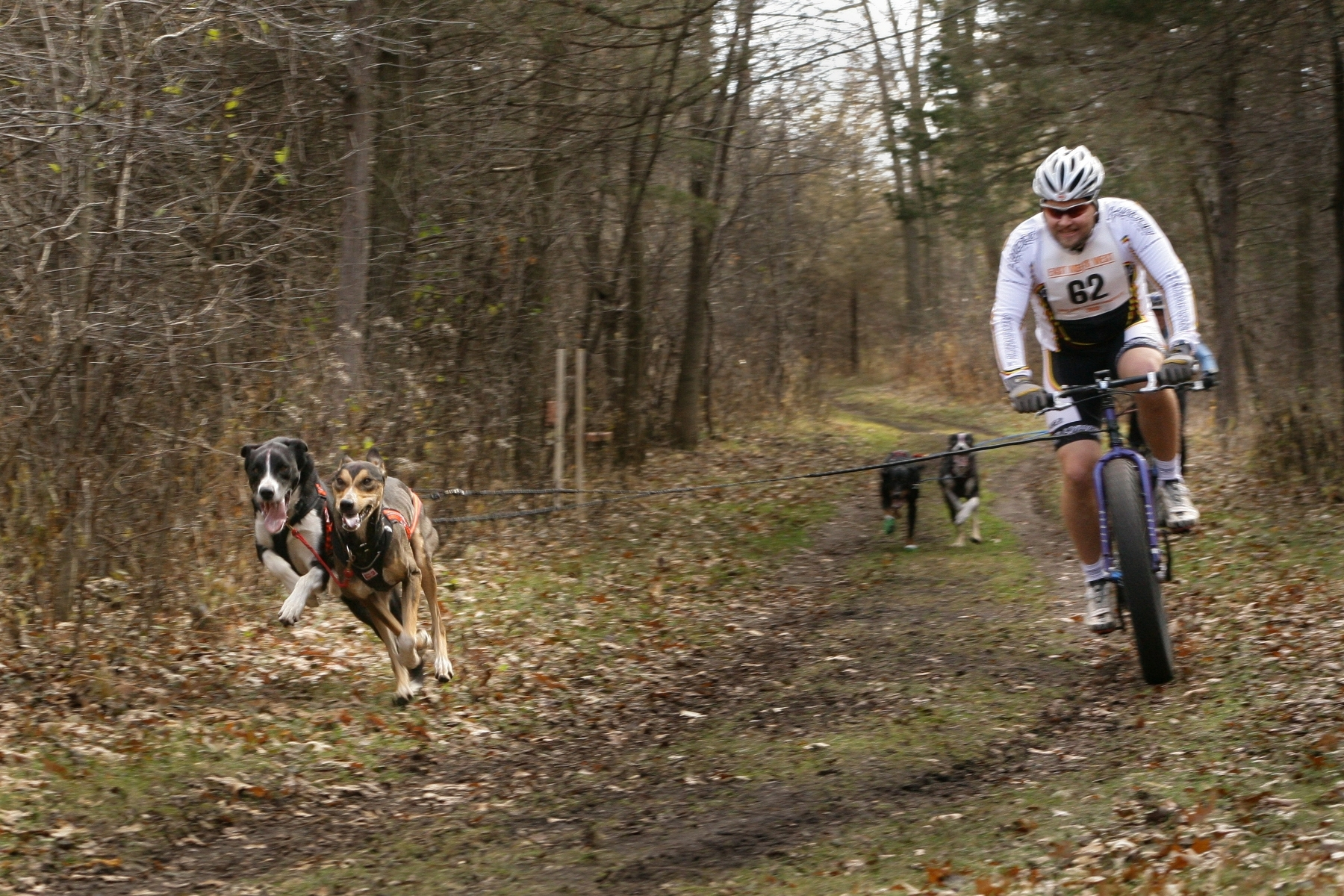 Two dog bikejoring at East Meets West Dryland Championships